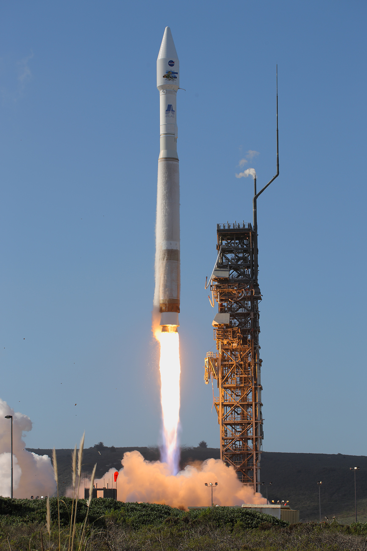 Landsat 8 - Some images from Landsat 8 launch on 11 February 2013.